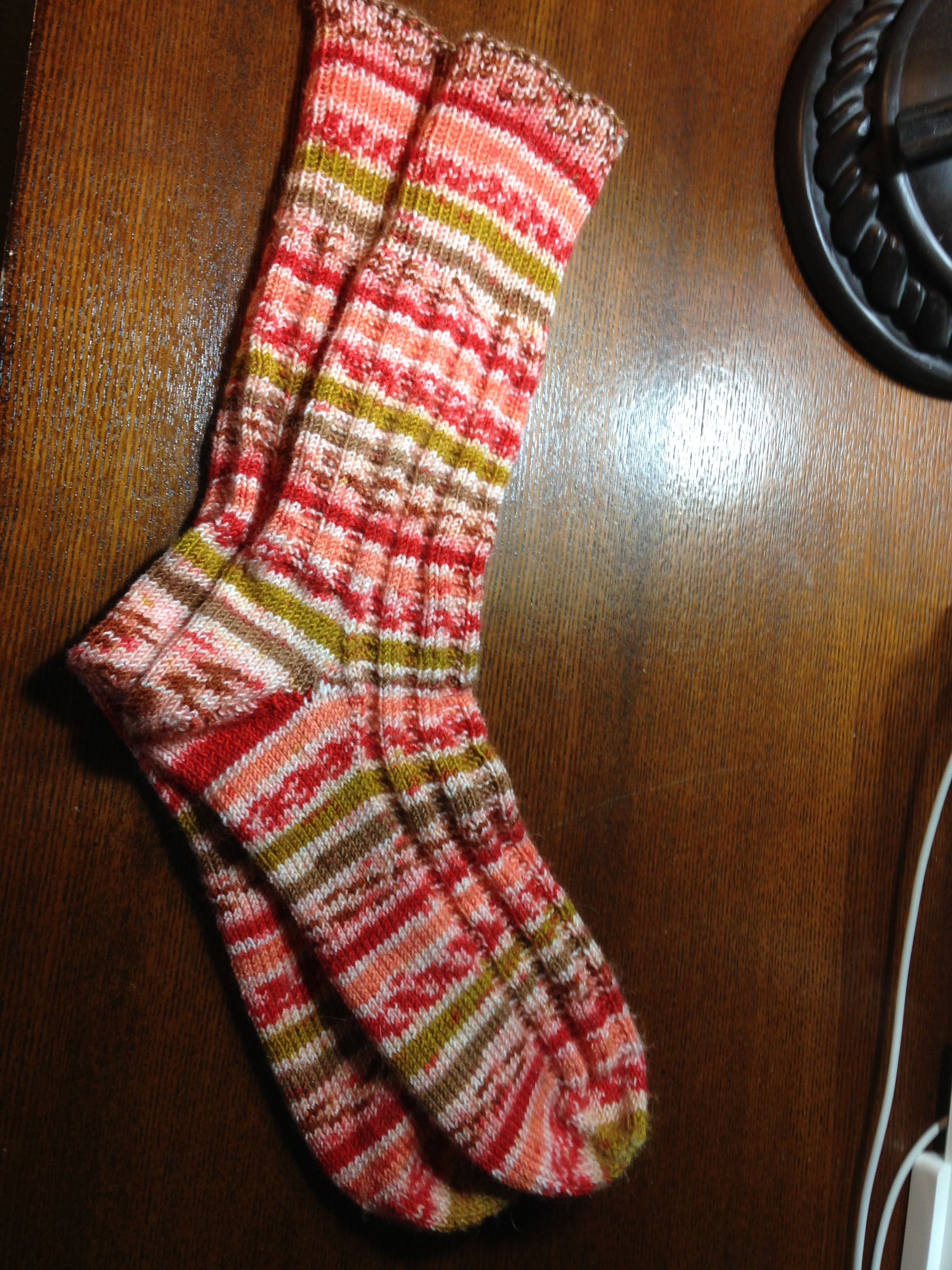 Pair of handknit socks